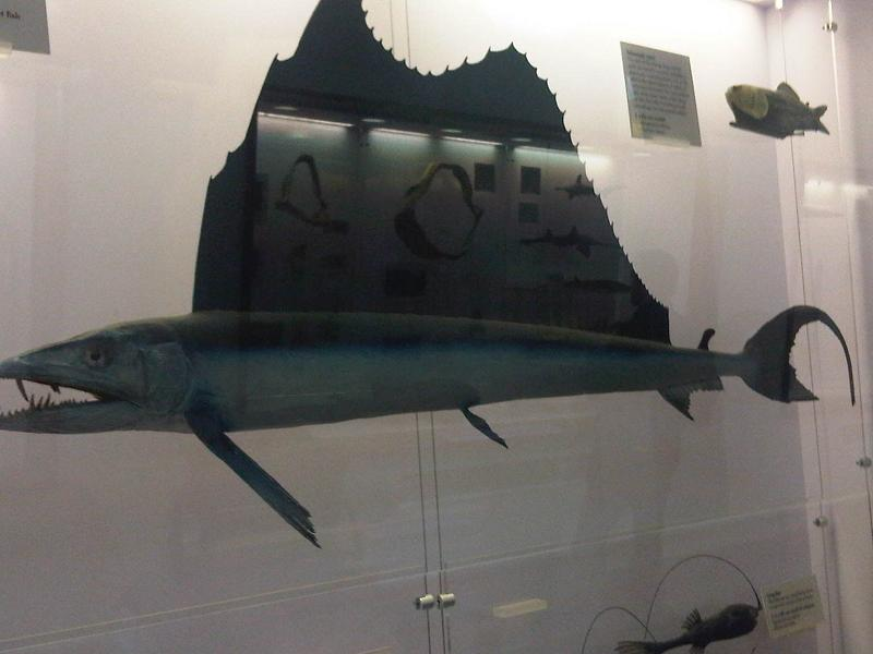 Lancetfish (Alepisaurus ferox), right corner up Opisthoproctus soleatus and right corner down Gigantactis macronema, at the Natural History Museum in London, England.